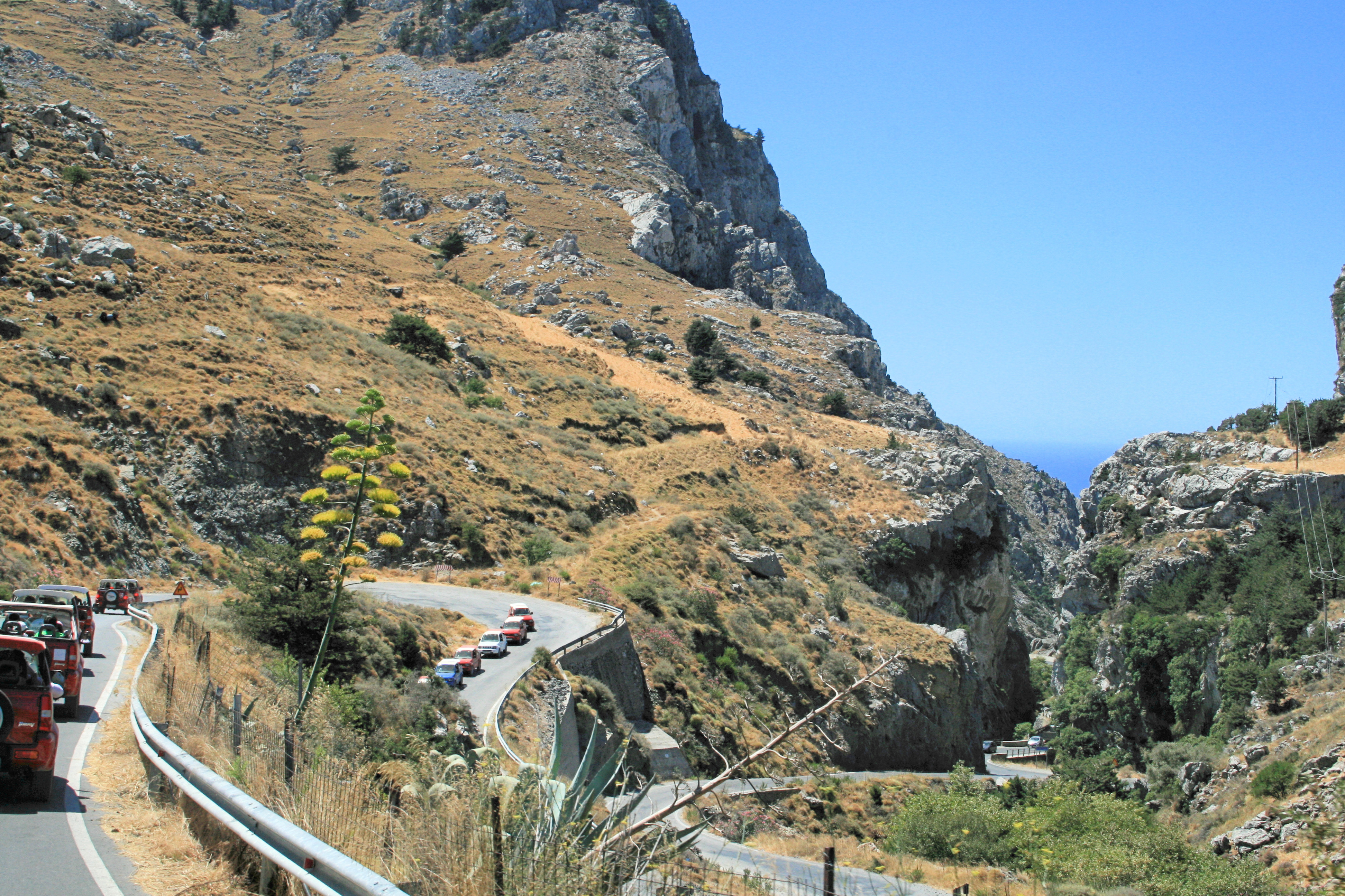 Kotsifos Gorge on the island of Crete